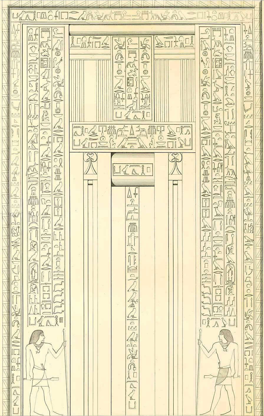 False door of the vizier Pehenuika, found at Saqqara, Ancient Egypt, 5th Dynasty